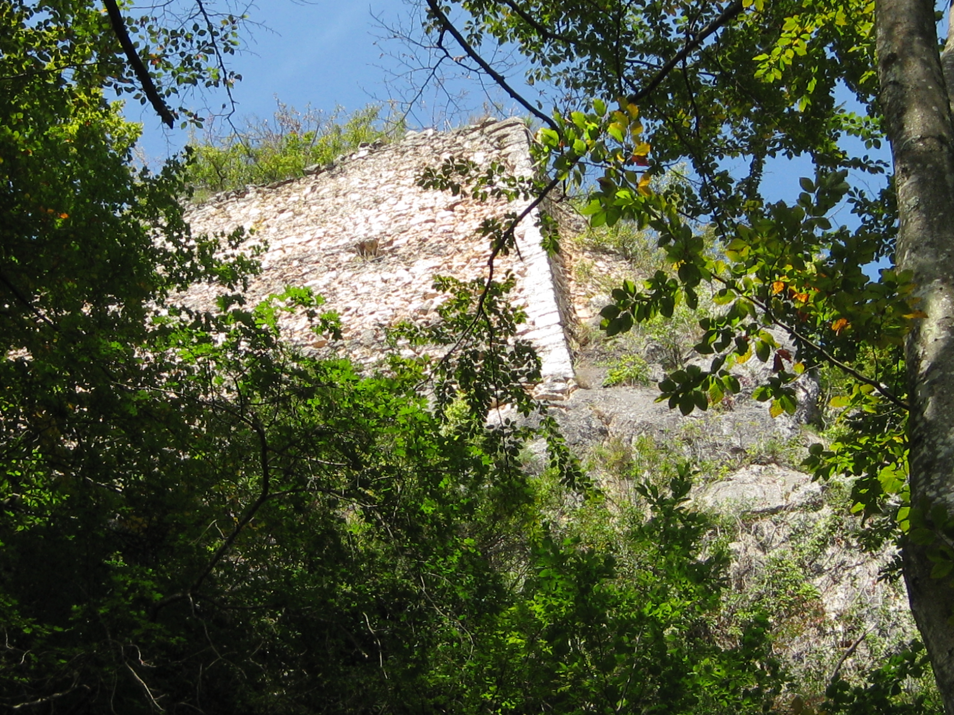 "Eagle Rock" Citadel - Northern Bastion - Sinteu, RomaniaRomână: Ruinele cetății Șinteu "Piatra Șoimului" - Bastionul Nordic